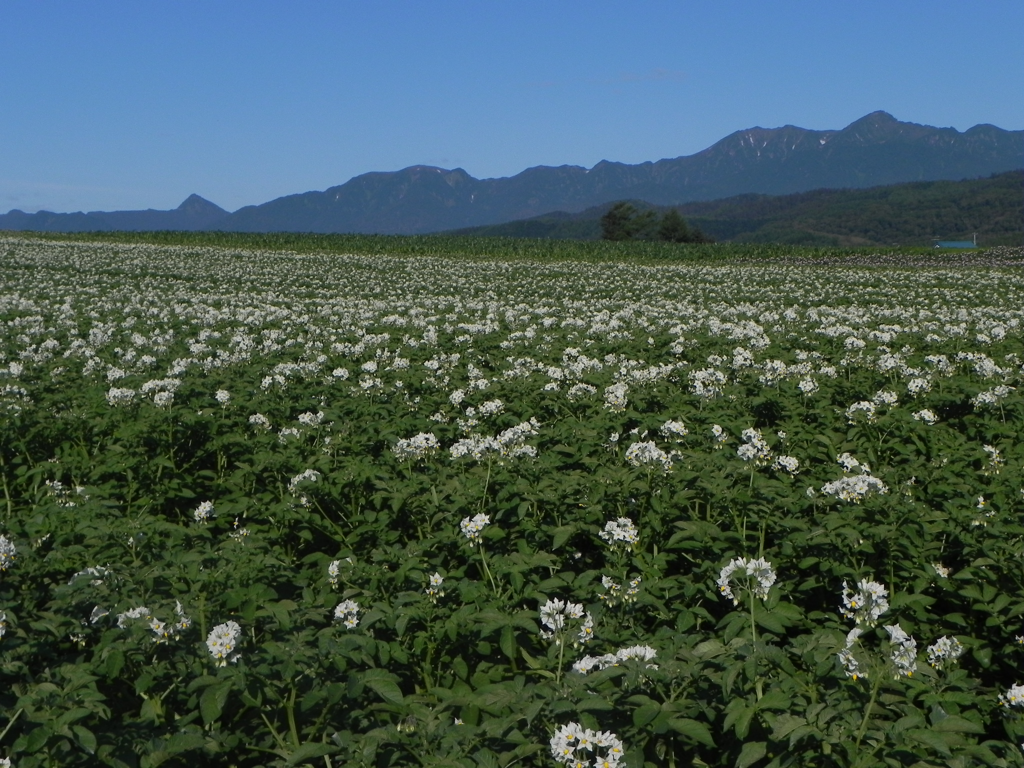 Potato fields in Furano, Hokkaido, Japan. And Yubari Mountains in the back. Mount Ashibetsu on the Right.